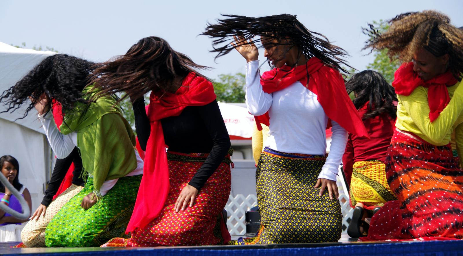 Eritrea Dancing